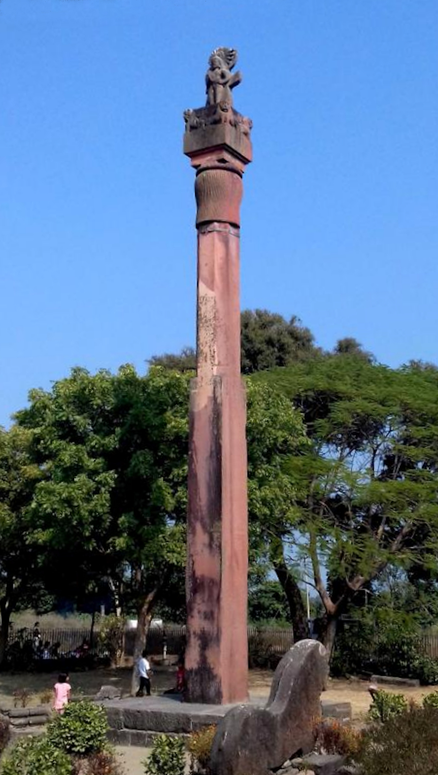 Eran Buddhagupta pillar built circa 476–495 CE??? Dated by inscription 484/5